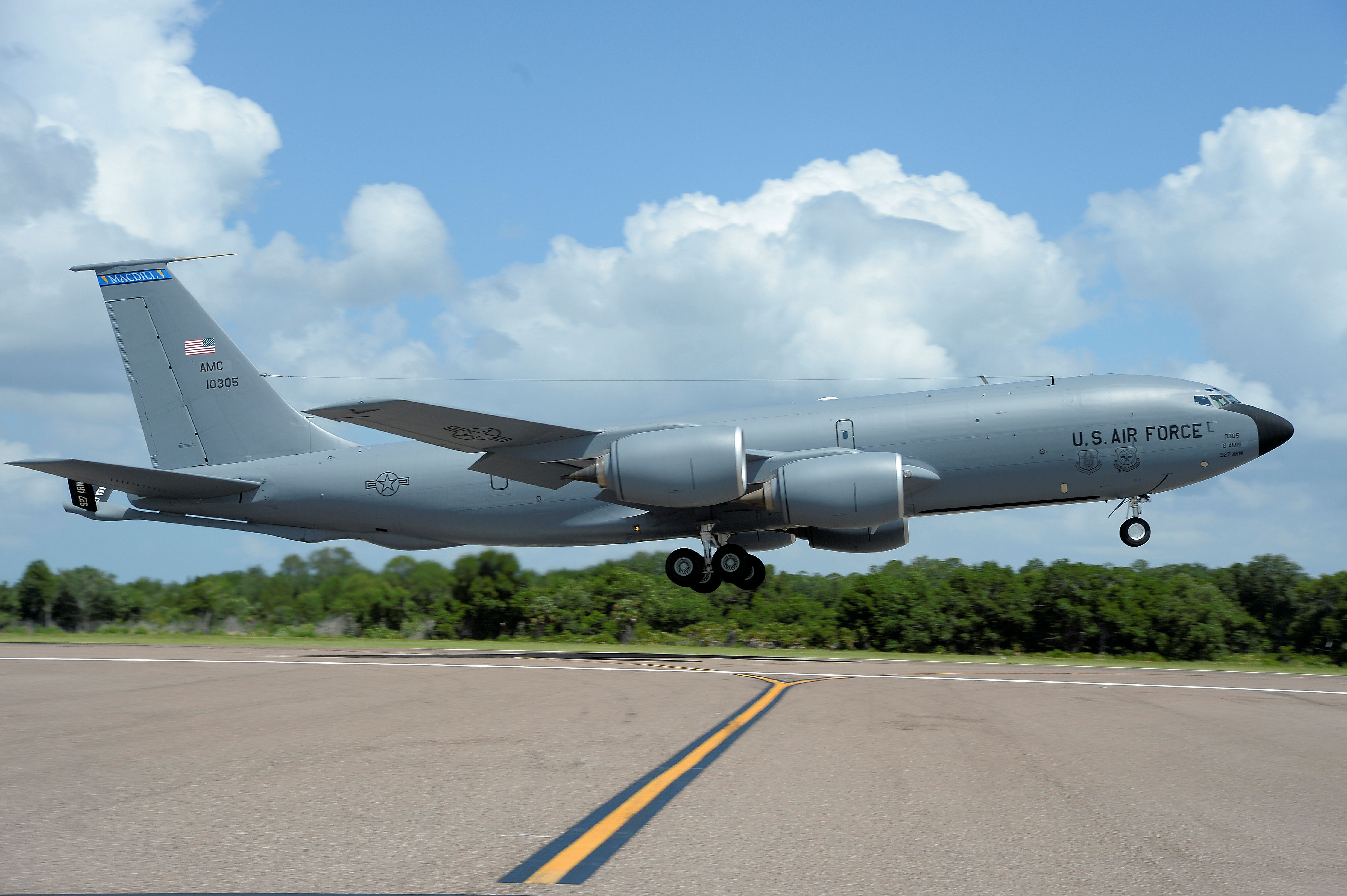 A KC-135 Stratotanker takes off from the flightline at MacDill Air Force Base, Fla., May 29, 2013. The KC-135 Stratotanker provides the core aerial refueling capability for the United States Air Force and has excelled in this role for more than 50 years. (U.S. Air Force photo by Senior Airman Shandresha Mitchell/ Released)